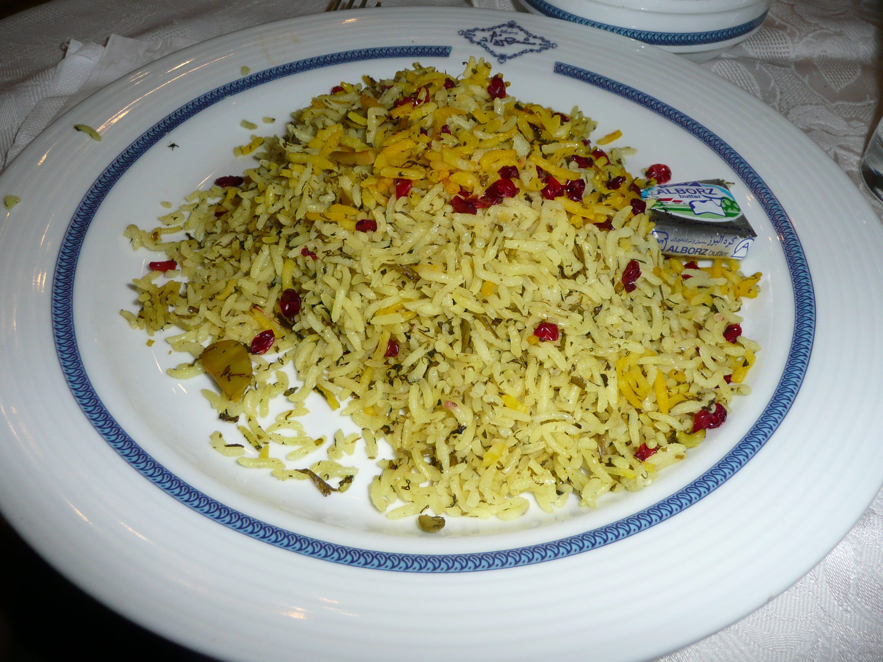 Photographs from Isfahan, Iran